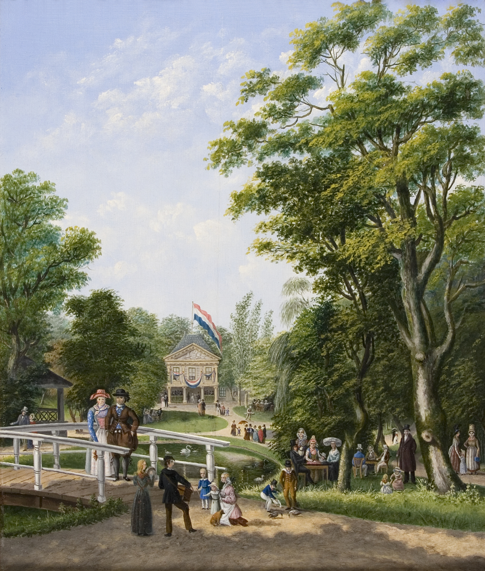 Festivities in the Prinsentuin in Leeuwarden